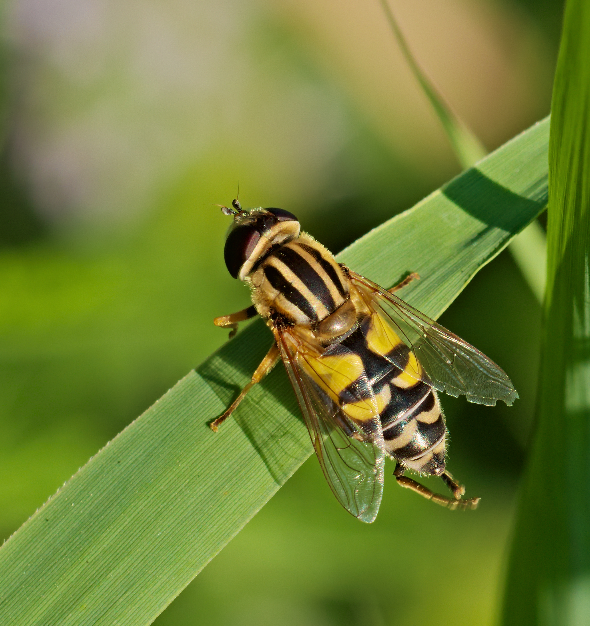 Helophilus trivittatus, female. Taken by a fishing lake in Hüttenfeld, Lampertheim, Hesse, Germany.